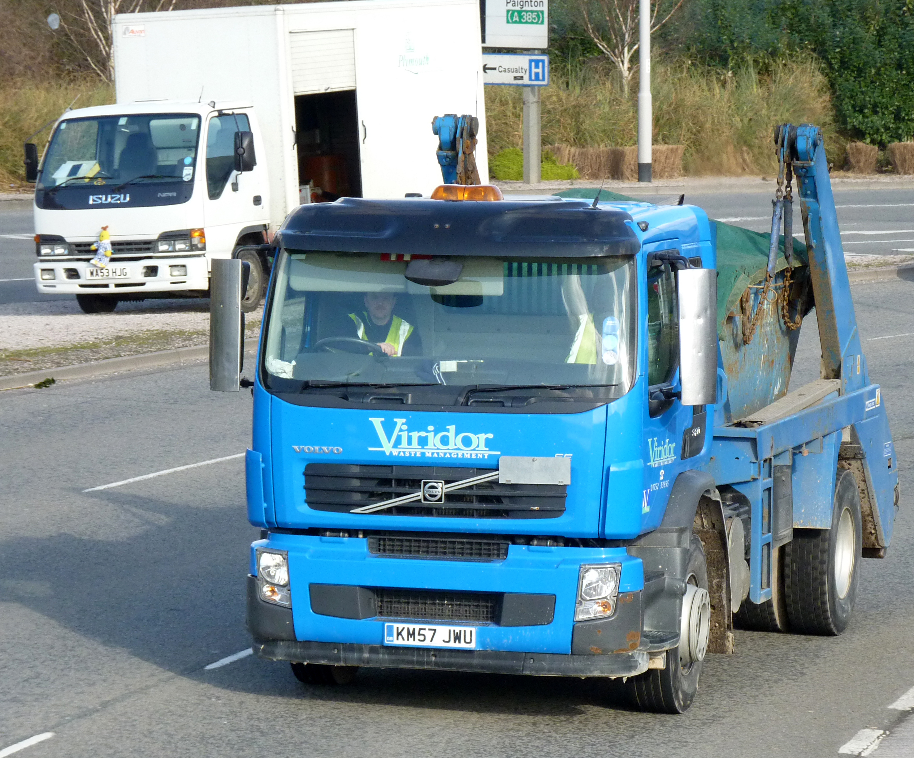 08 February 2010 Marsh Mills Plymouth